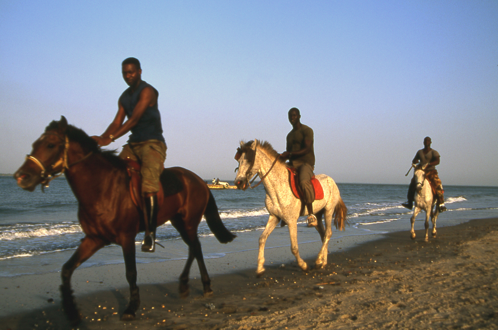 The guards of the president in The Gambia take an evening horse ride on the beach near Banjul.